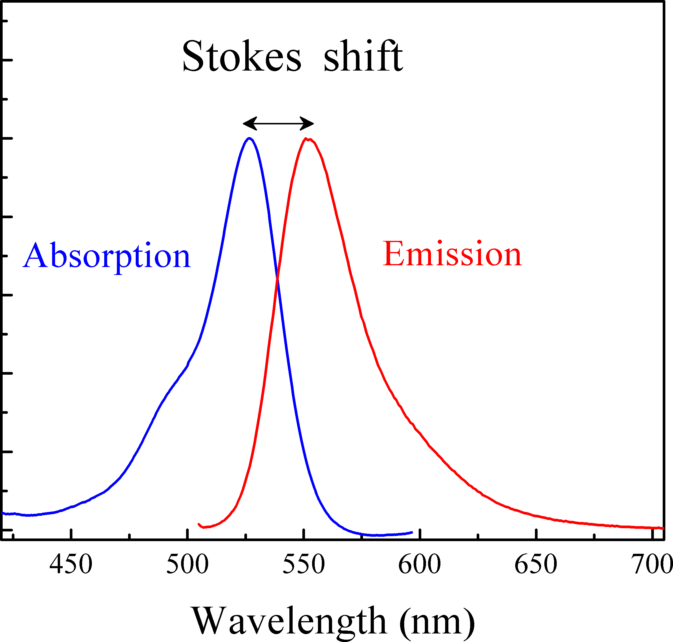 Normalized absorption and emission spectra of Rh6G